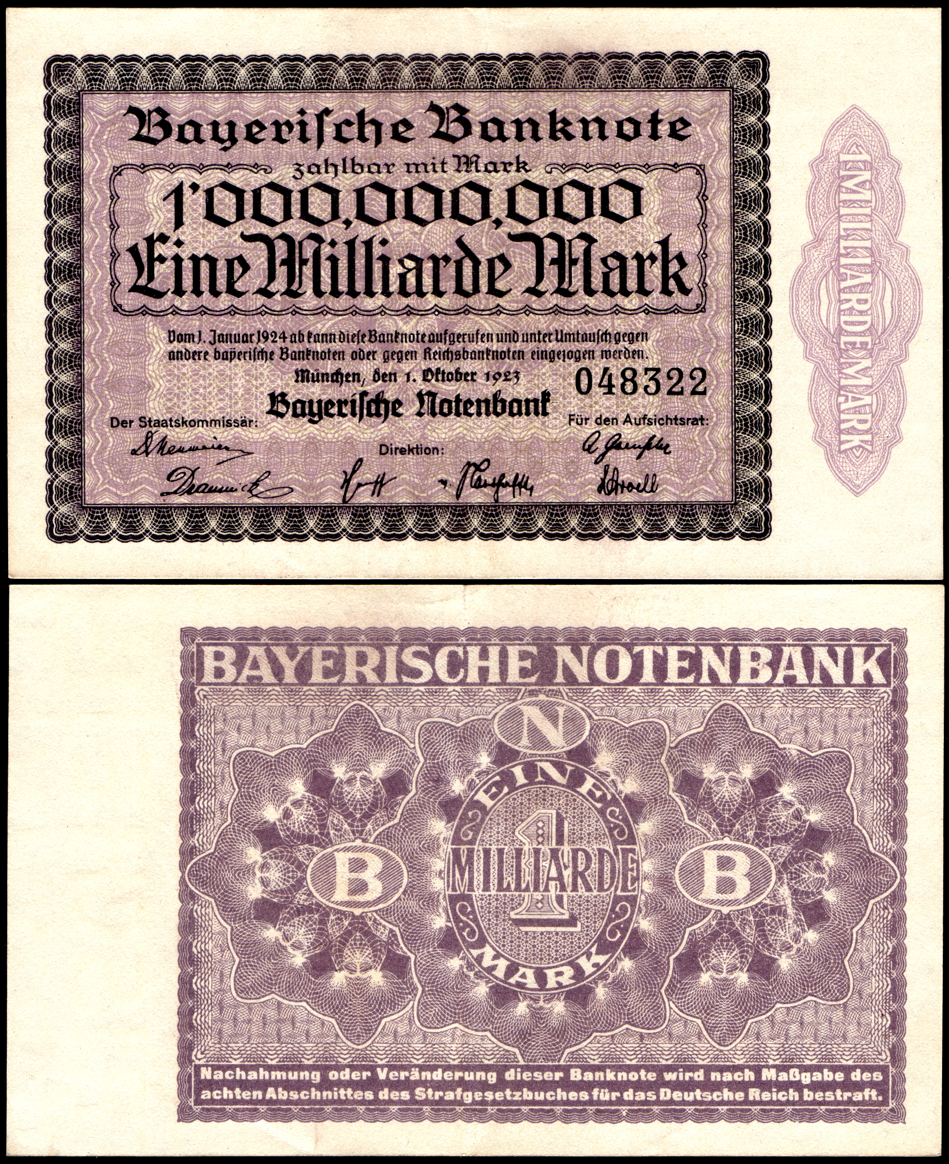 "Notgeld" banknote: one billion Mark, Bayerische Notenbank (1923), size: 84 mm x 138 mm.